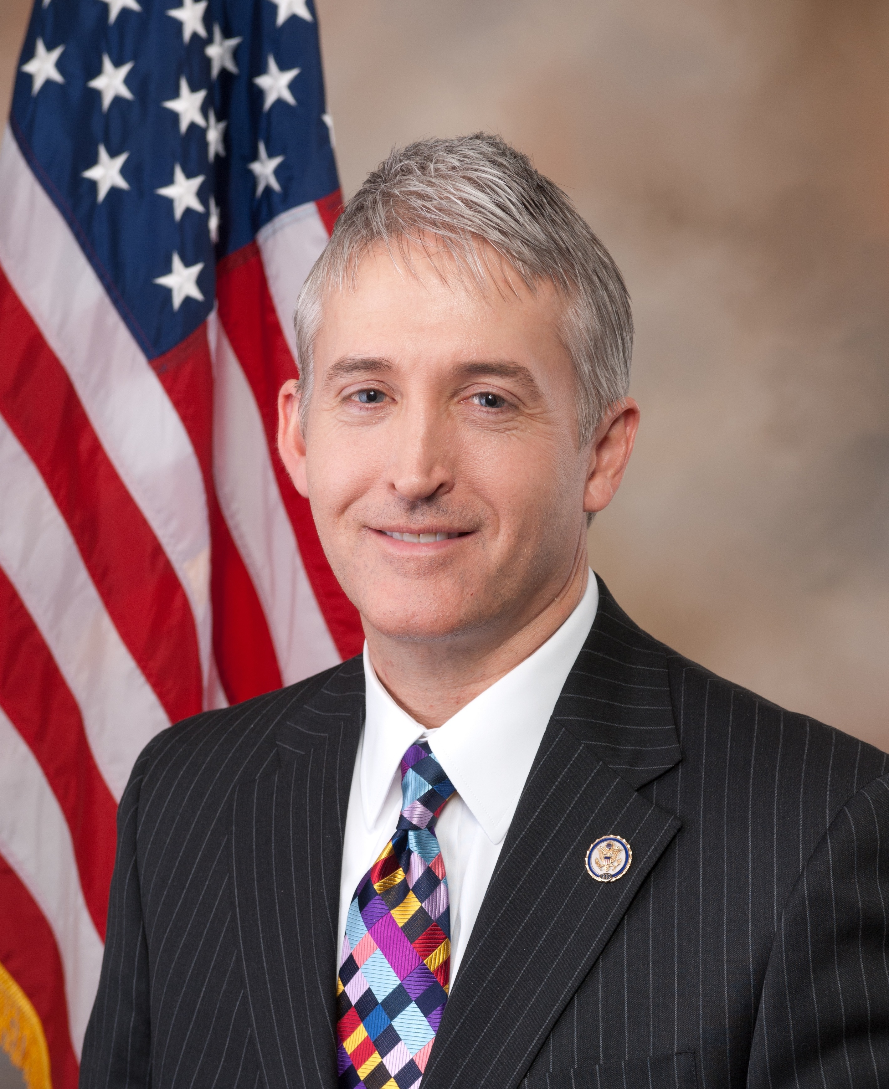 Official portrait of US Rep. Trey Gowdy